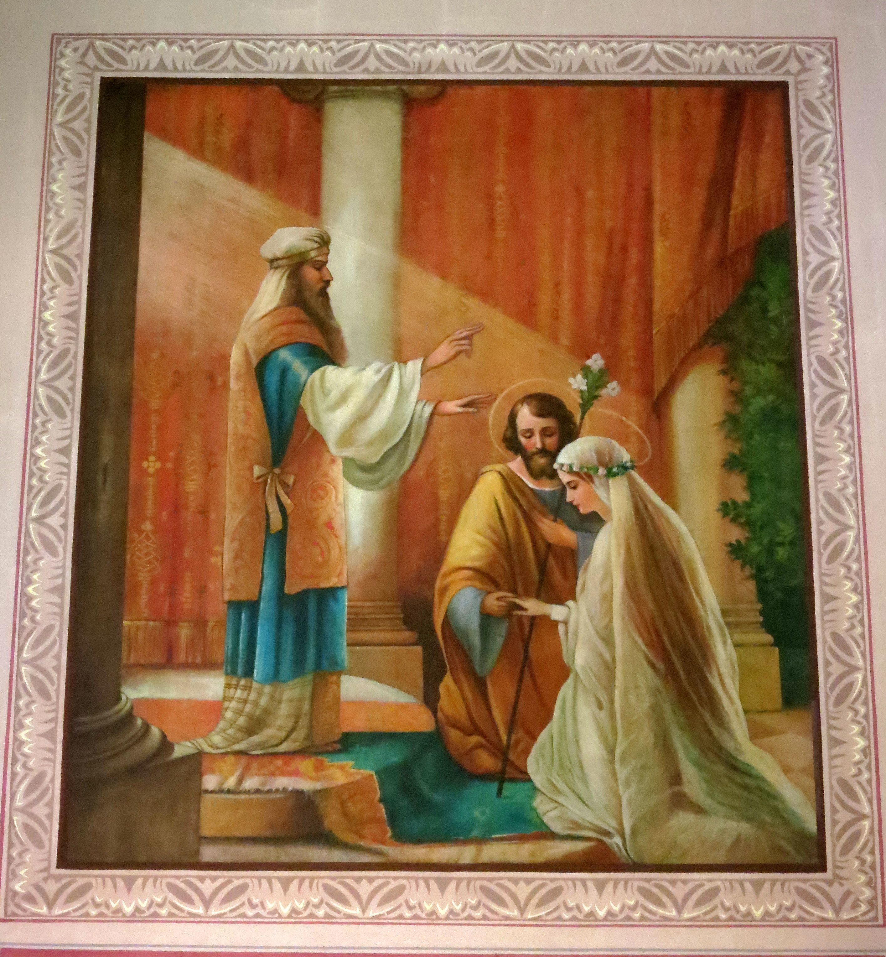 Saint Augustine Church (Covington, Kentucky) frescomedium QS:P186,Q25631150